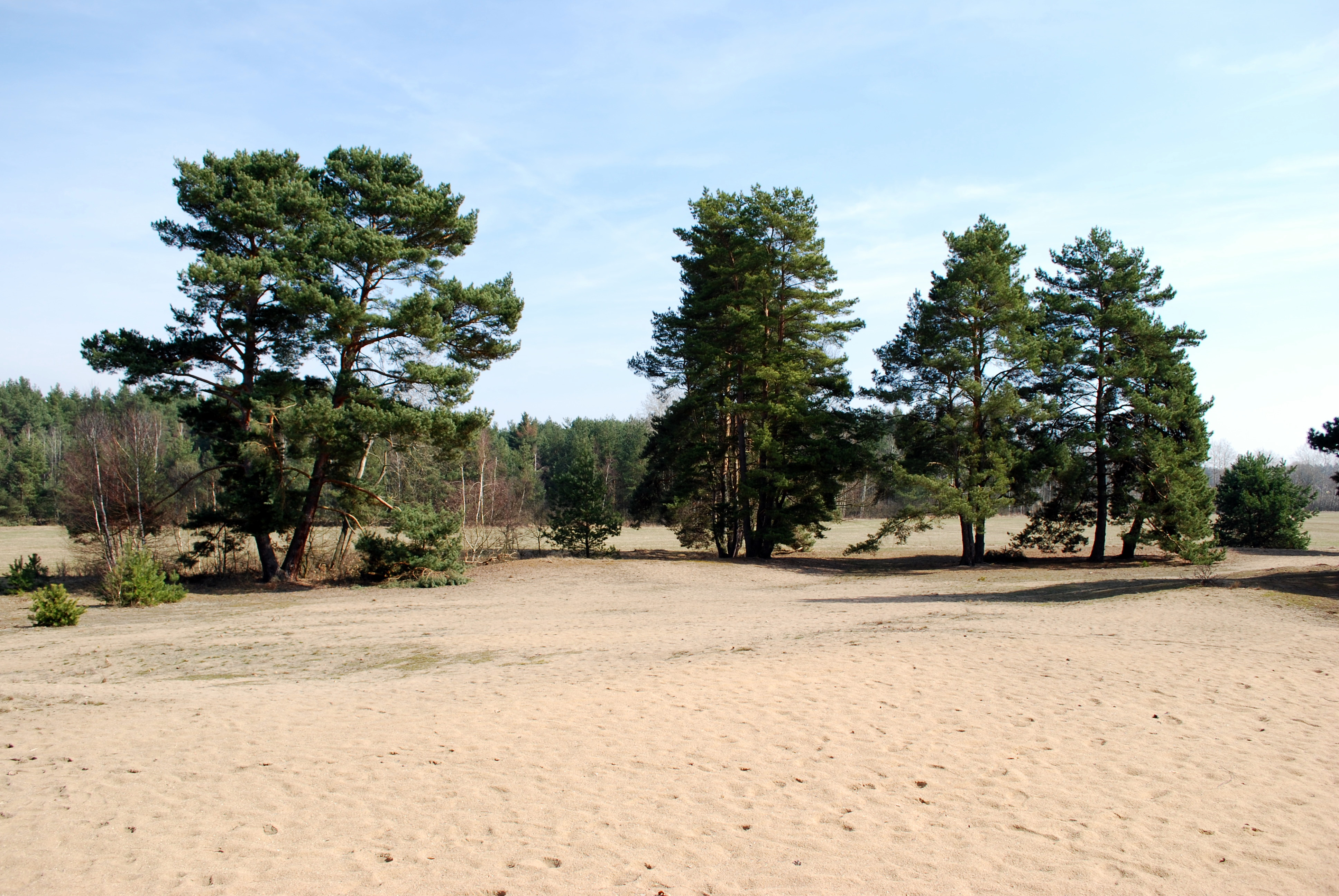 Natural reservation "Písečný přesyp u Vlkova" near Vlkov village, Tábor District, Czech republic. This photograph was taken within the scope of the 'Czech Municipalities Photographs' grant. - OpenStreetMap(Info)